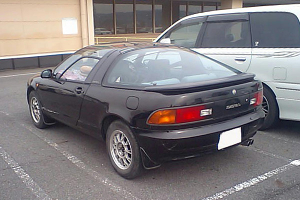 Toyota "Sera"